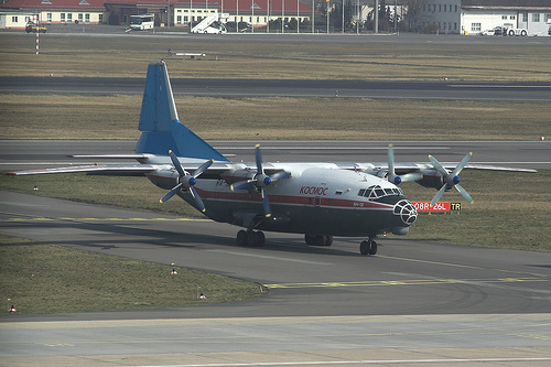 Kosmos Airlines (Космос) Antonov An-12 RA-12957 (crashed on 26th of May 2008 near Chelyabinsk)